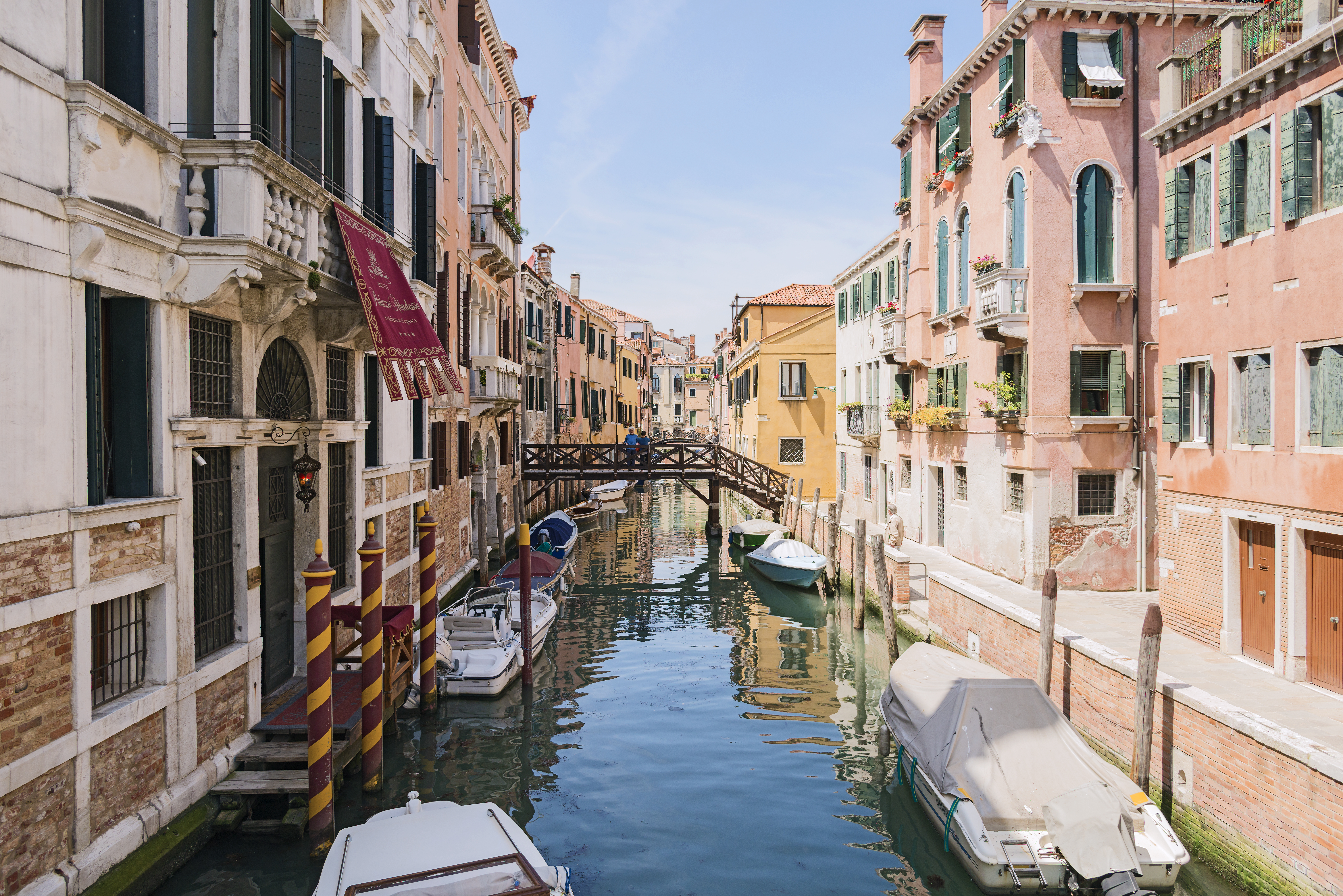 Rio Priuli o de Santa Sofia to Venice. View from Ponte Priuli a Santa Sofia.